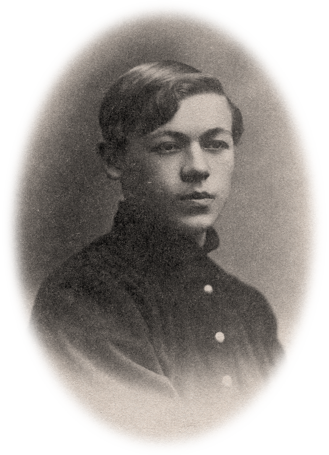 Pirogov Aleksandr Stepanovich